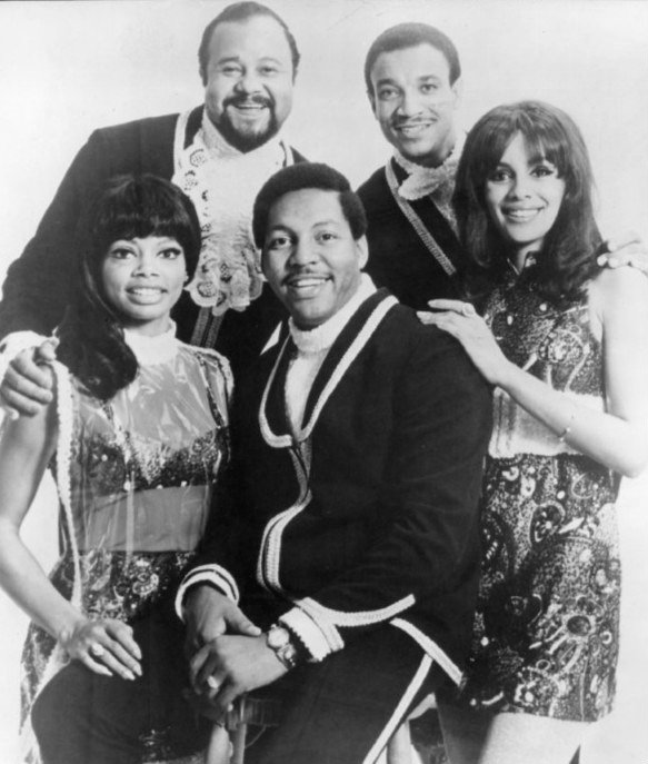 Publicity photo of the music group The Fifth Dimension.